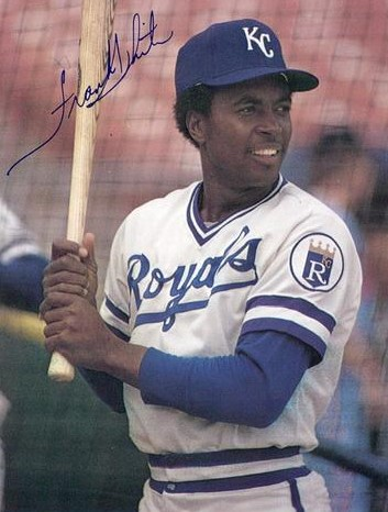 Image cropped from a baseball card of Frank White from the 1979 Kansas City Royals Photocards set.